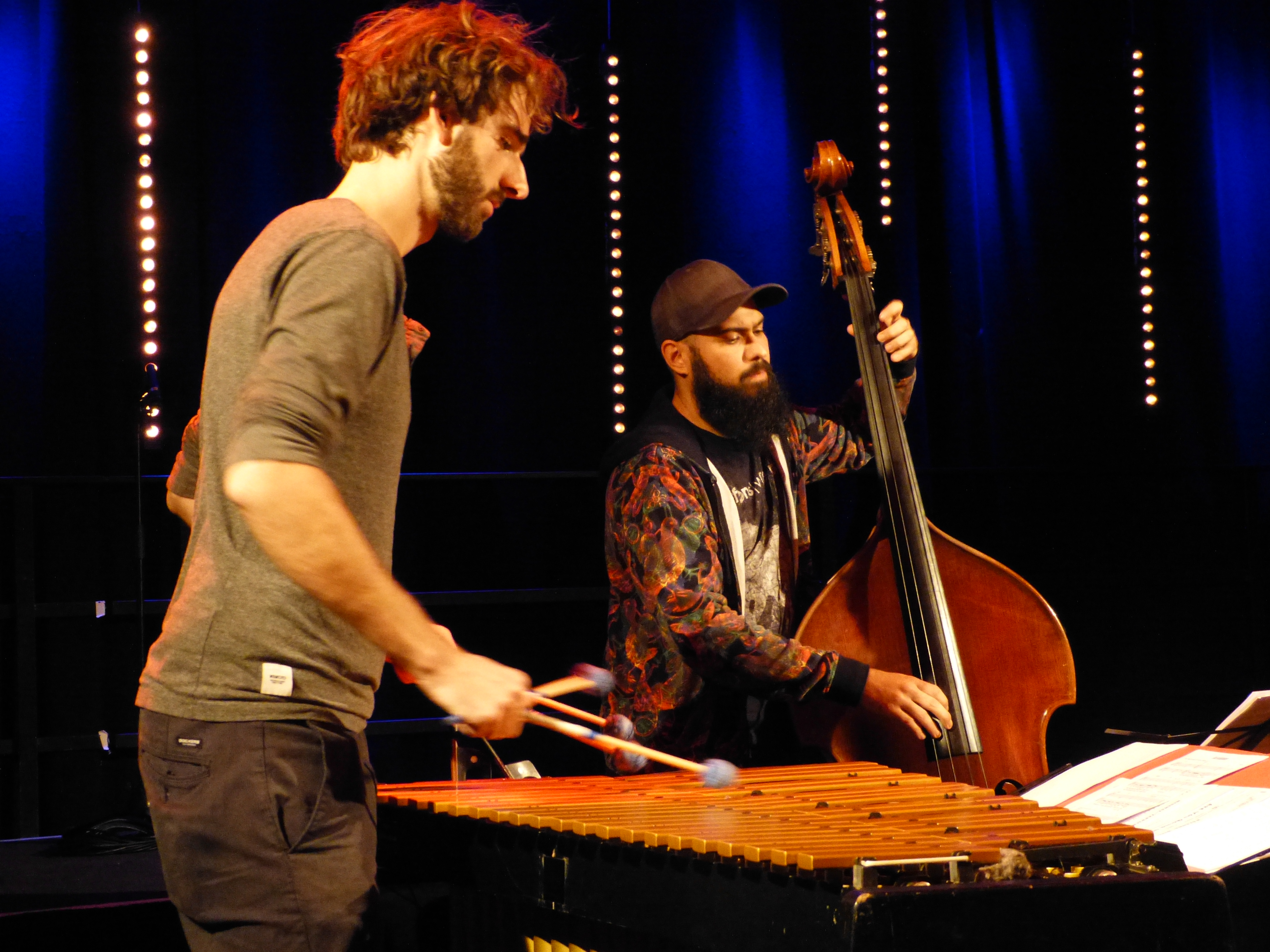 Dierk Peters (vib) and Reza Askari (b) in concert of the Gender balanced Group (with Tamara Lukasheva (voc) and Filippa Gojo (voc)) at ARTheater Cologne, Germany, September 15th, 2015